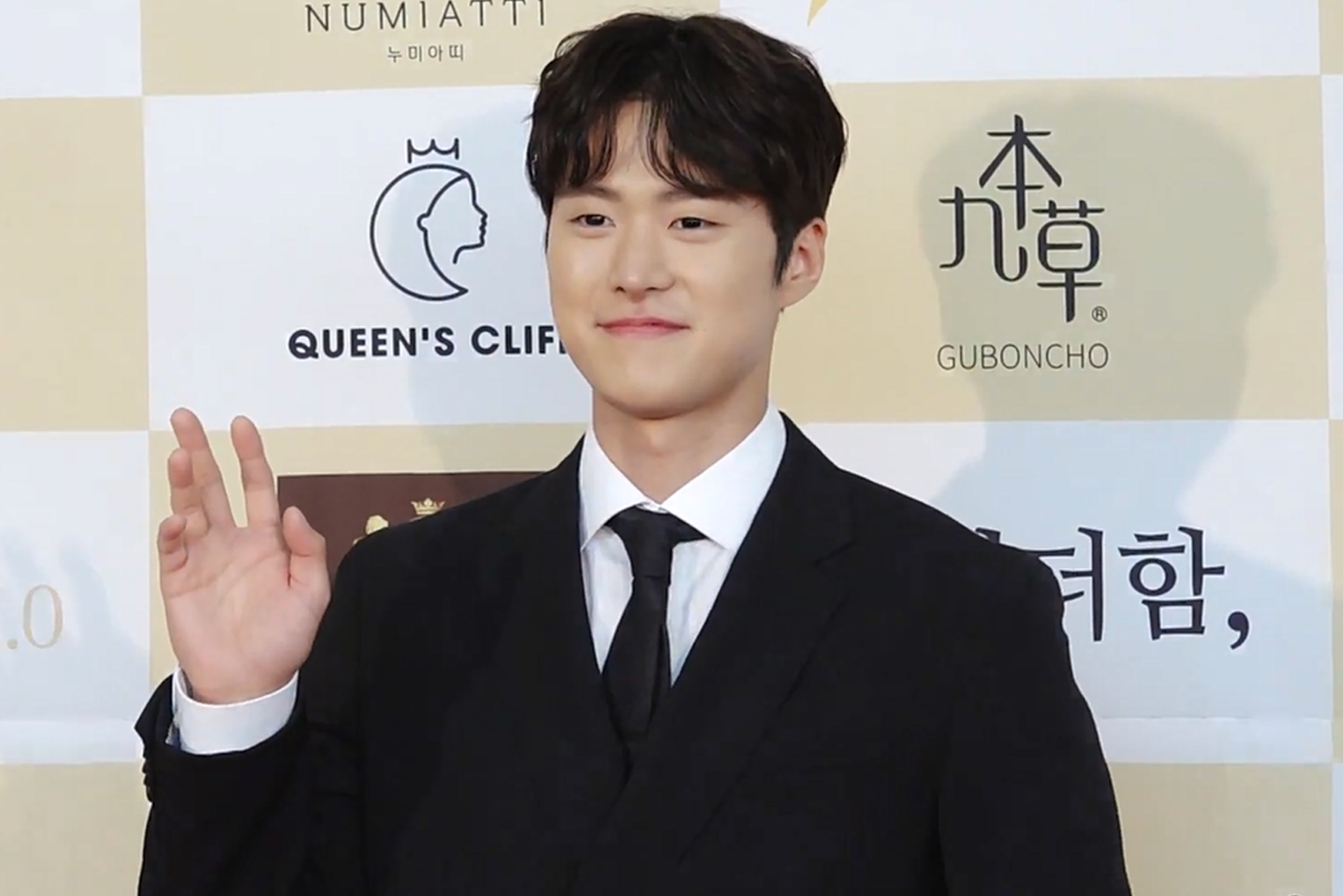 Gong Myung at The 24th Chunsa Film Festival was held at the COEX Auditorium in Samseong-dong, Gangnam-gu, Seoul on July 18, 2019.